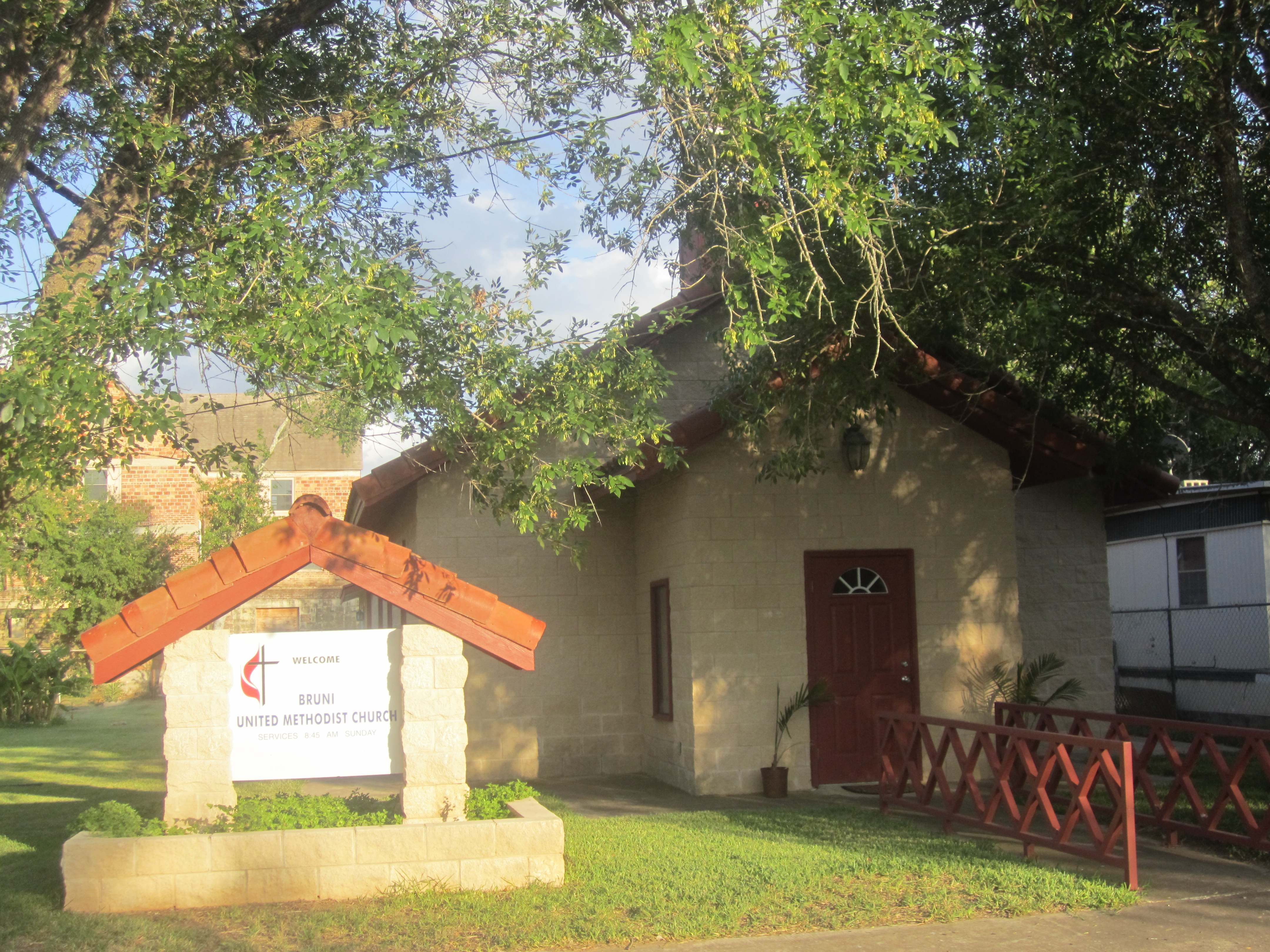 I took photo of Bruni United Methodist Church in Bruni, TX, with Canon camera.